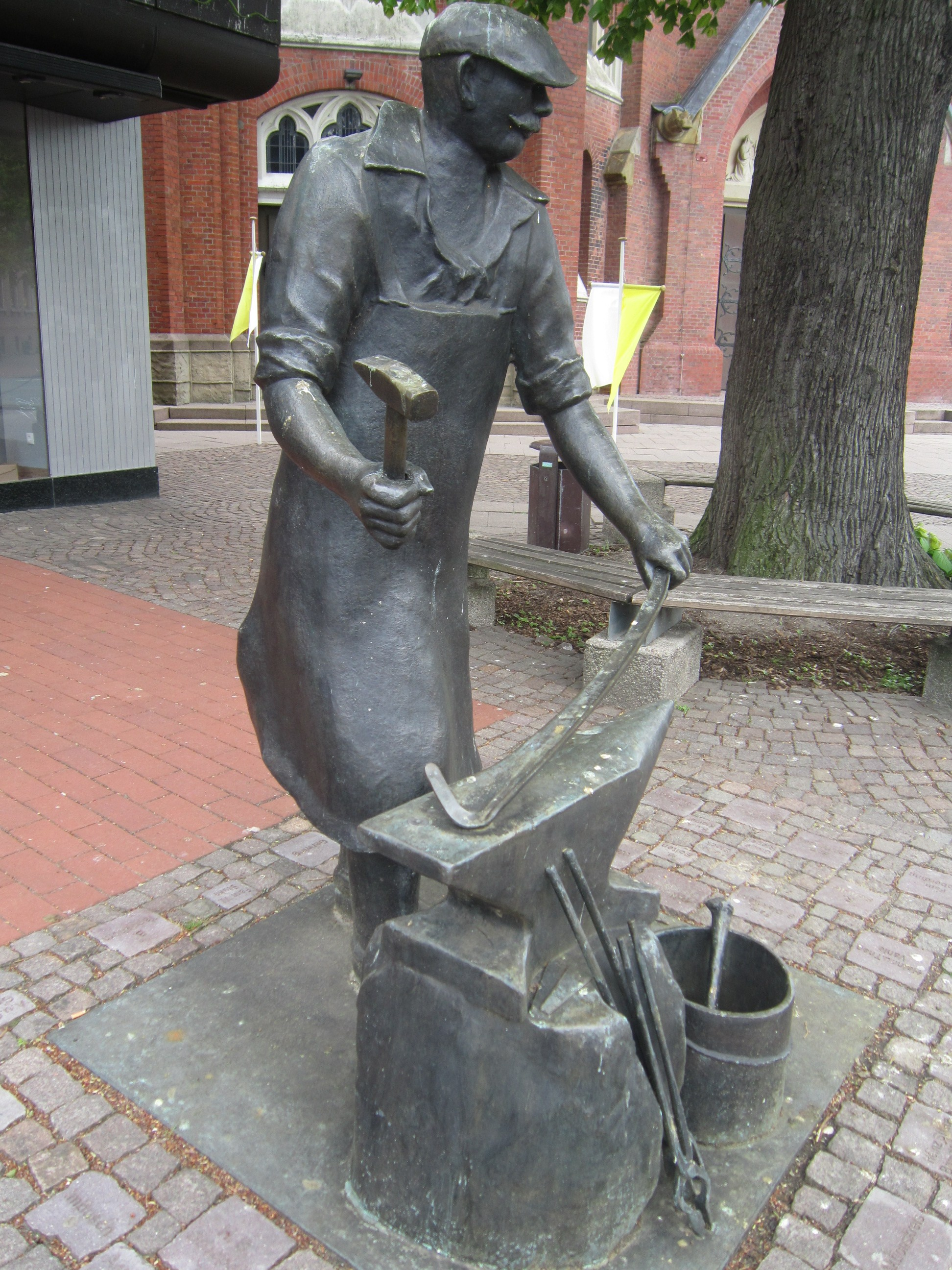 Bronze sculpture showing a scythesmith in Friesoythe